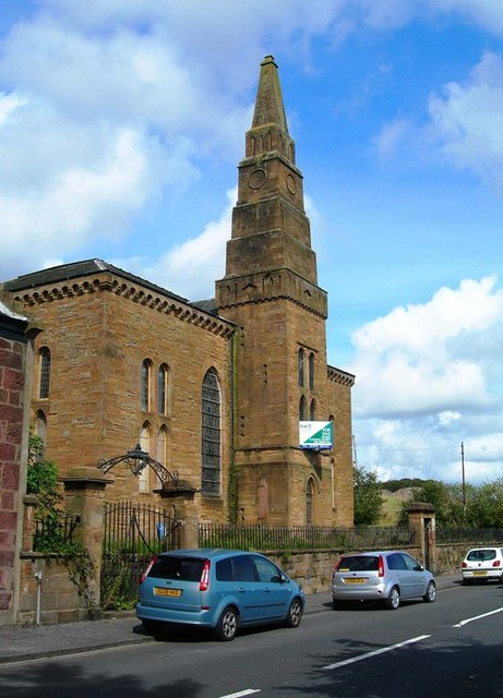 Maybole Parish Church Built in 1808, this church had no heating until 1841, when two stoves were installed. The church has been up for sale for some time, with consent for residential development, but there are no takers so far.